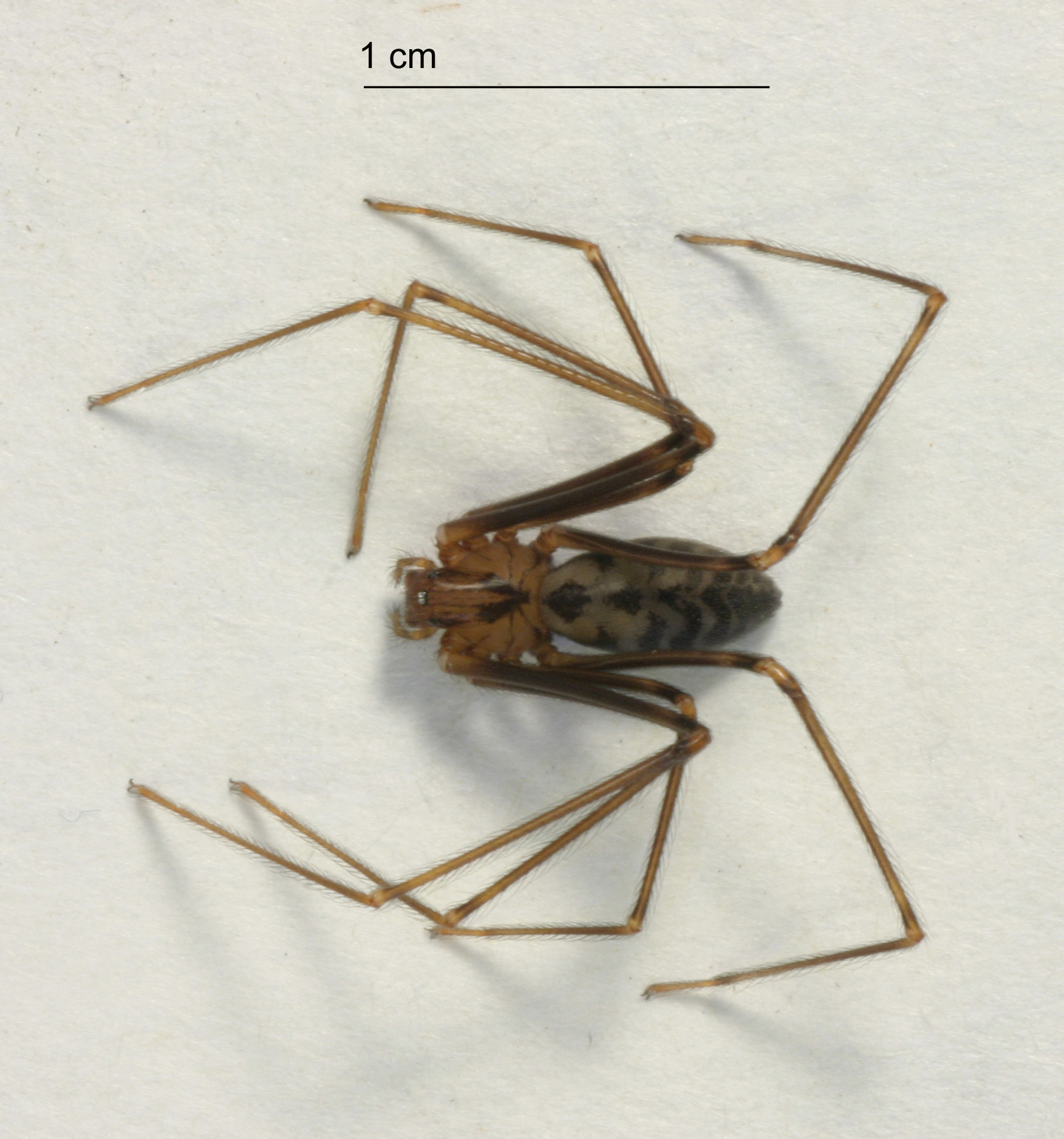 False violin spider Drymusa (Araneomorphae: Haplogynae: Drymusidae). The specimen is likely to have been captured in Merlo (St. Louis Province, Brazil).